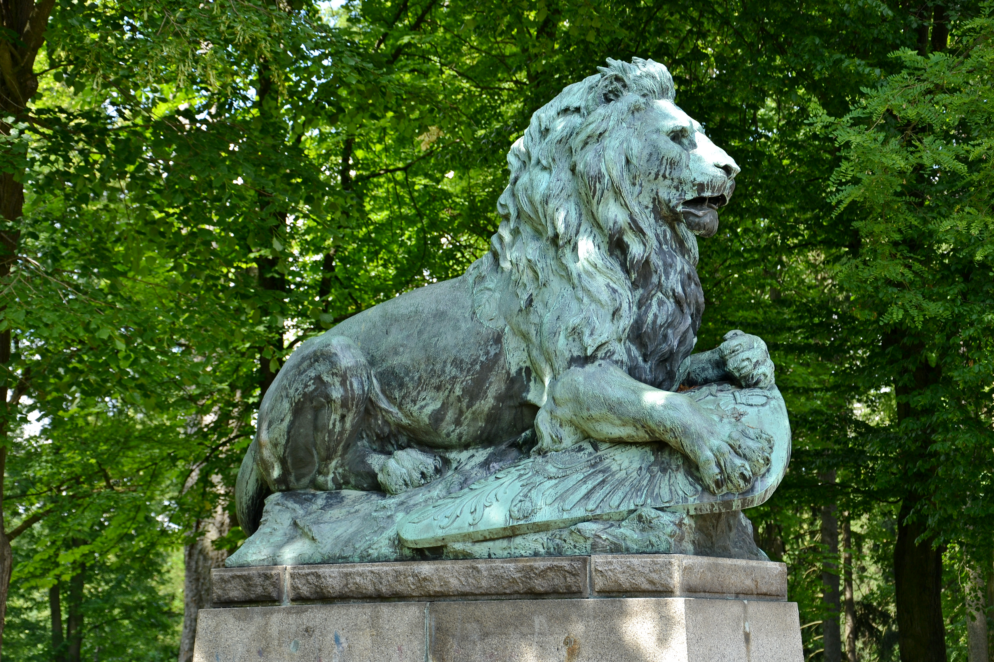 Krásná Lípa (Schönlinde), Czech Republic - lion sculpture from 1908